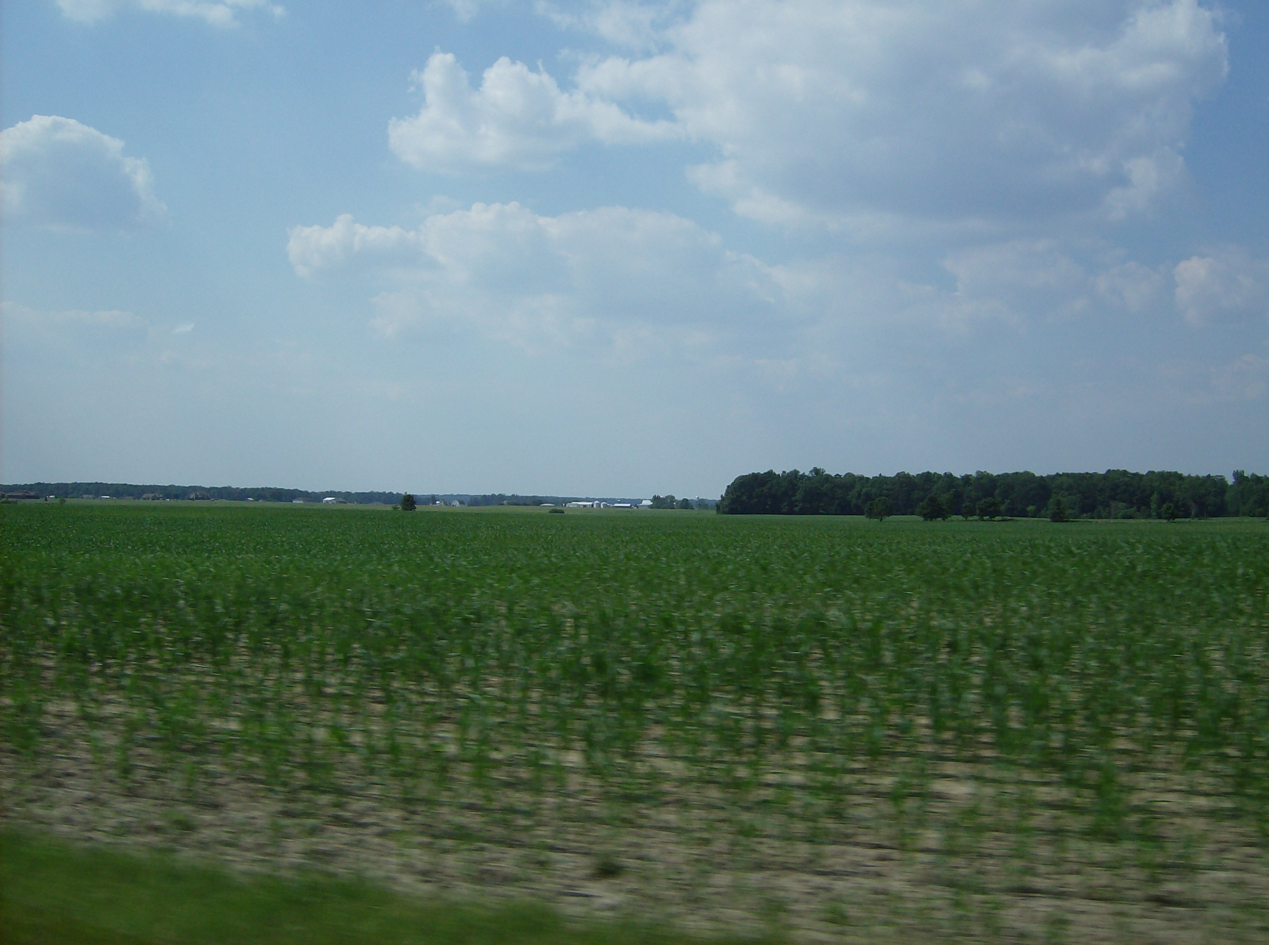 View of farmland in western Jackson Township, Shelby County, Ohio, United States. Picture taken looking northward from Ohio State Route 274.